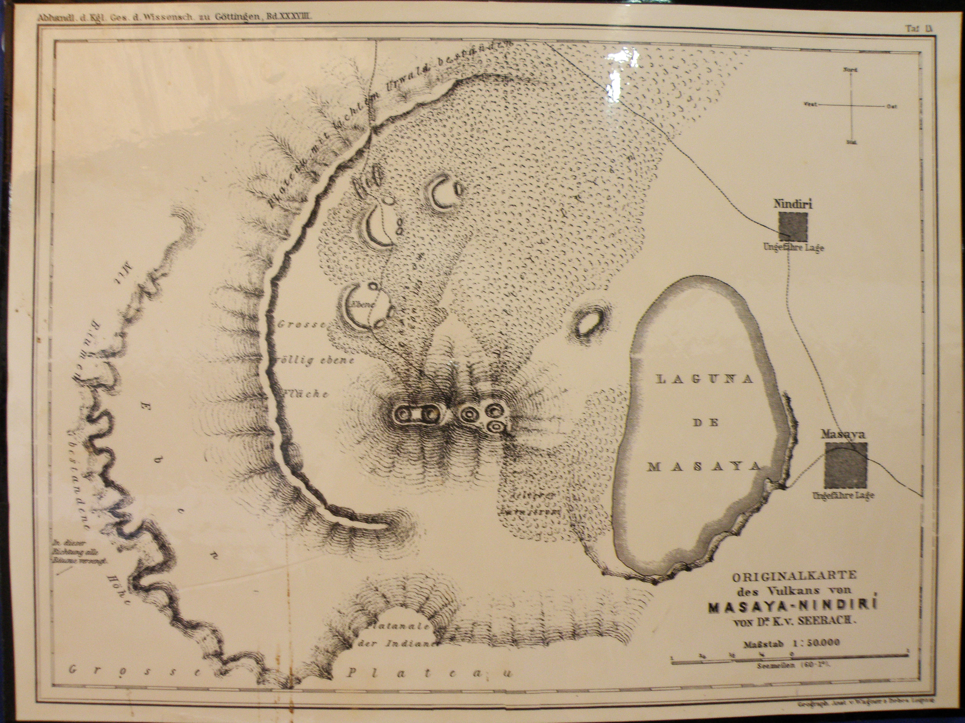 Map of the Masaya Volcano Museum.